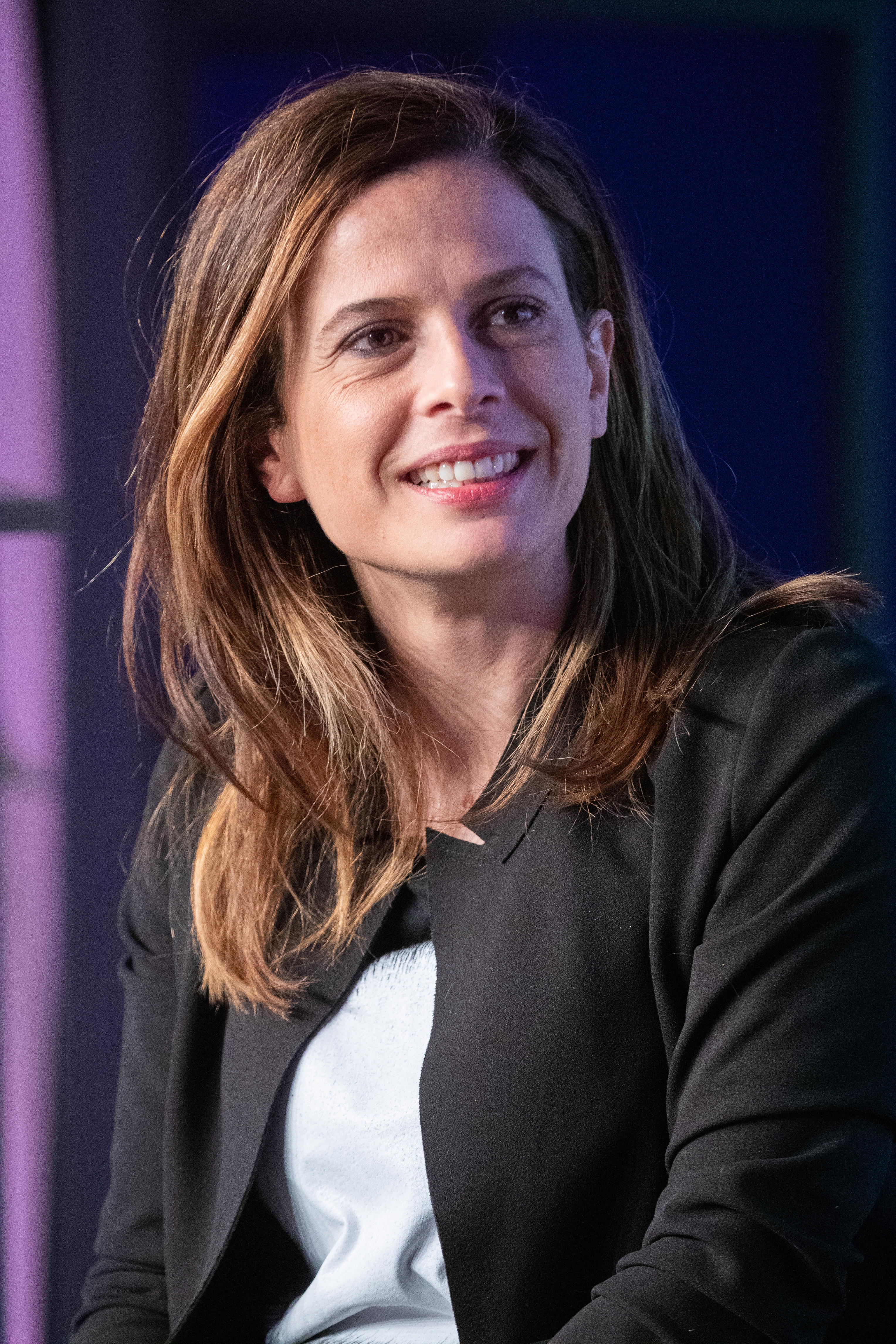 Francesca Bria at the Panel "Kill the unicorns! On future imaginaries, funding policies and innovation ecologies", :Re:publica 19